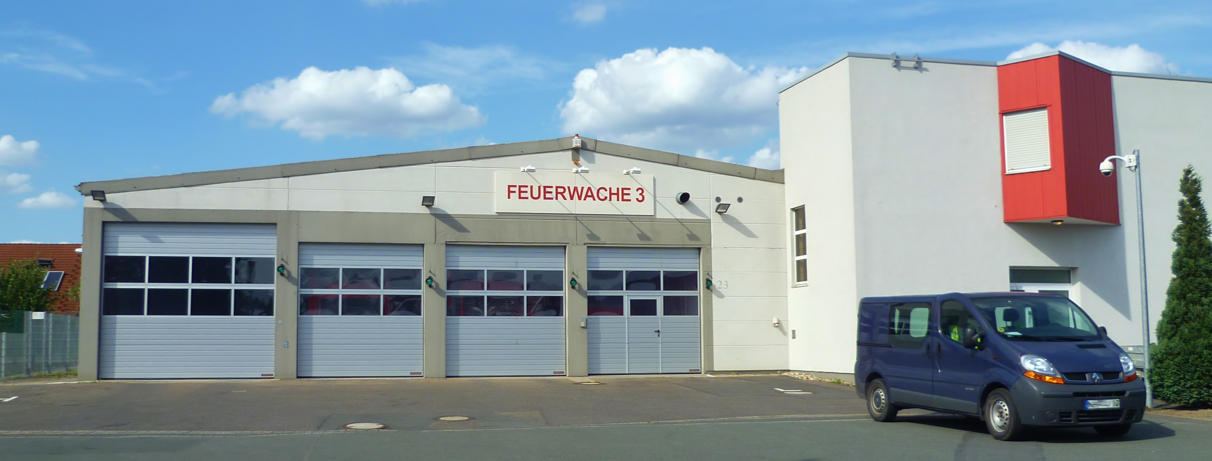 Fire station № 3 of Münster in Westphalia